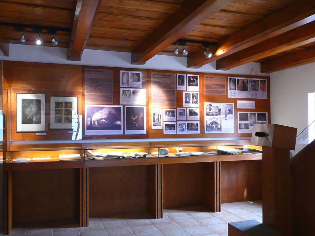 Exhibition detail from Hubert Kessler memorial house, ground floor (Jósvafő, Hungary)